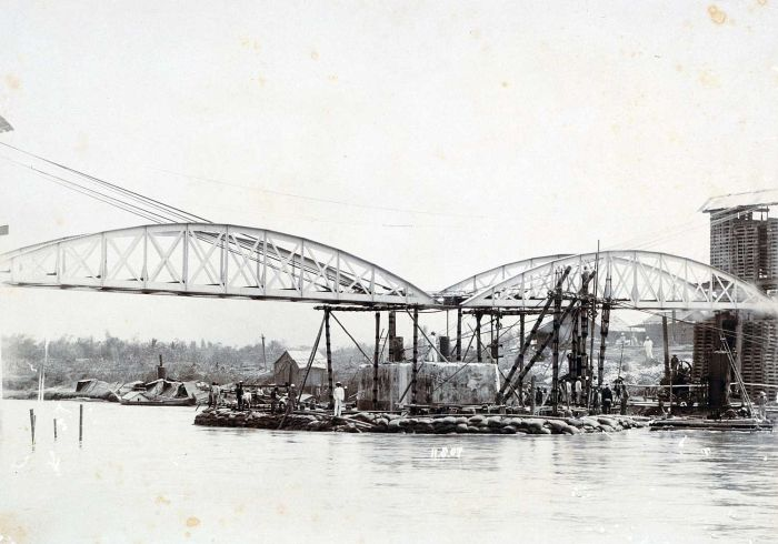 Railway bridge across a river under construction